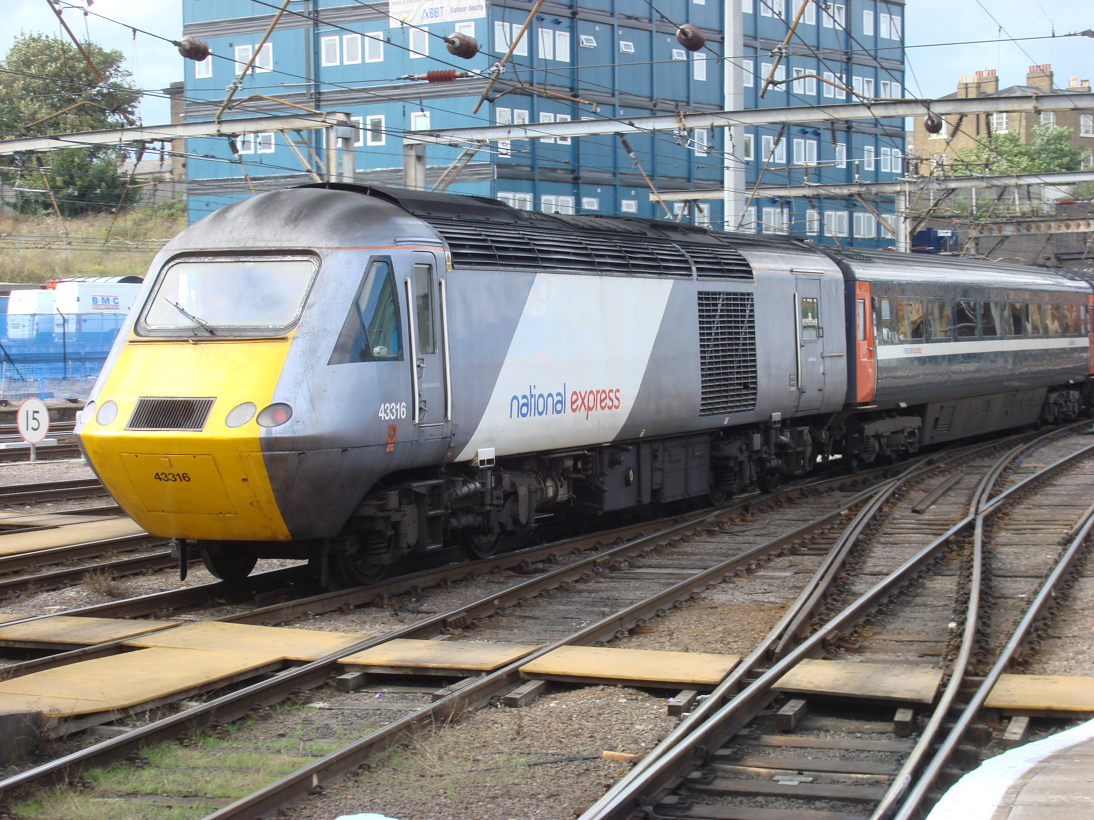 43316 at Kings Cross